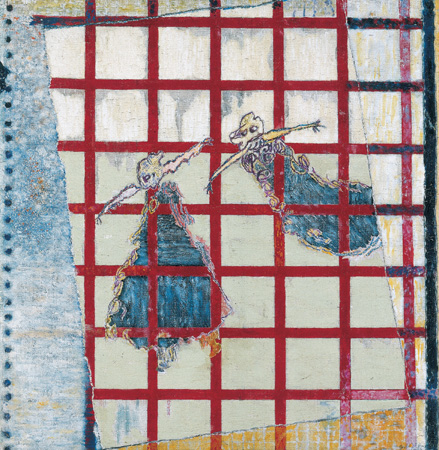 Painting by Ilka Gedő at the Hungarian National Gallery WITCHES IN PREPARATION Oil on canvas, 59 x 58 cm